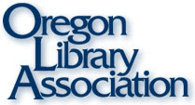 The Oregon Library Associaztion's logo